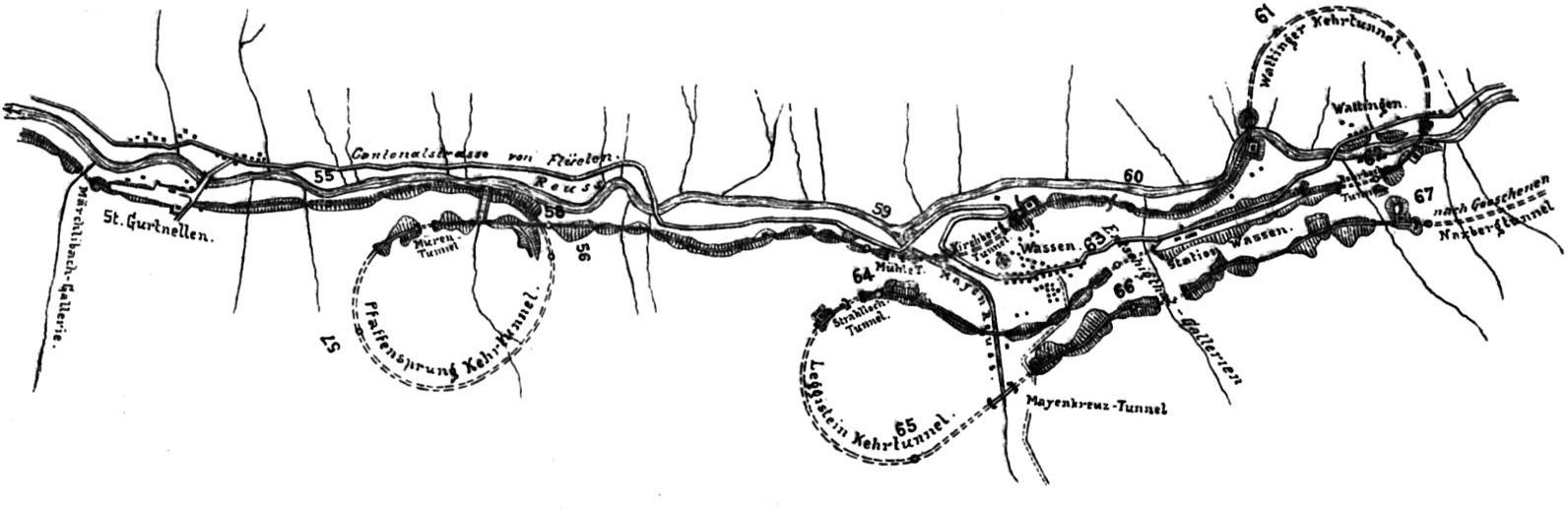 Outline of the Pfaffensprung spiral tunnel and the double loop at Wassen on the northern ramp to the Gotthard tunnel.